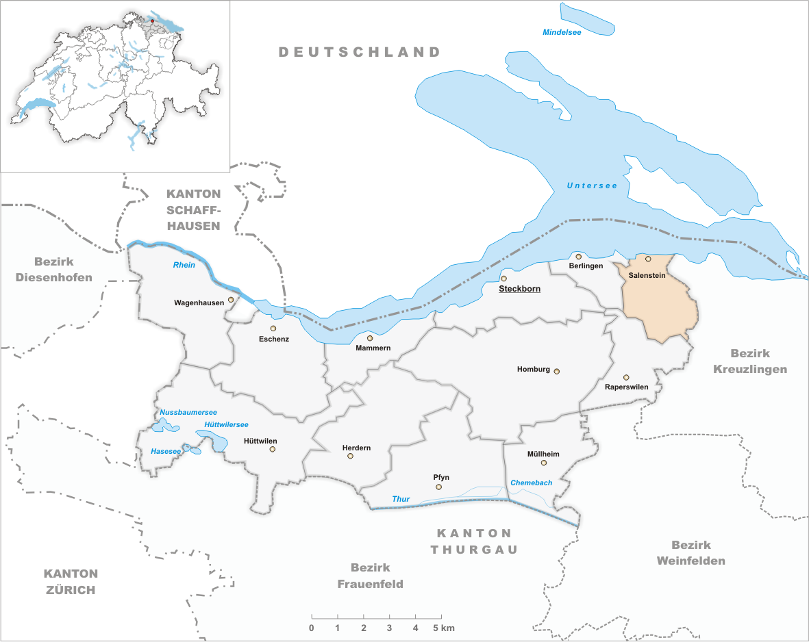 Municipality Salenstein